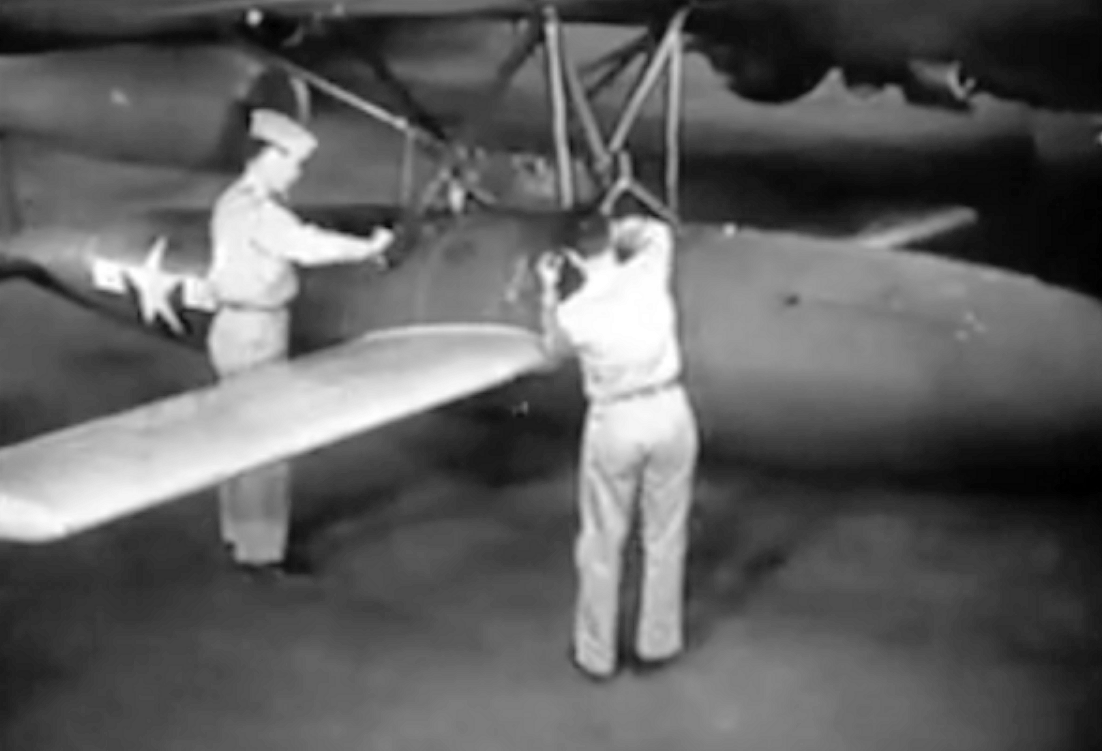 Ground technicians prepare USAAF JB-2 jet bomb for flight during testing of weapon, 1944 (Snap of video frame of USAAF Film)